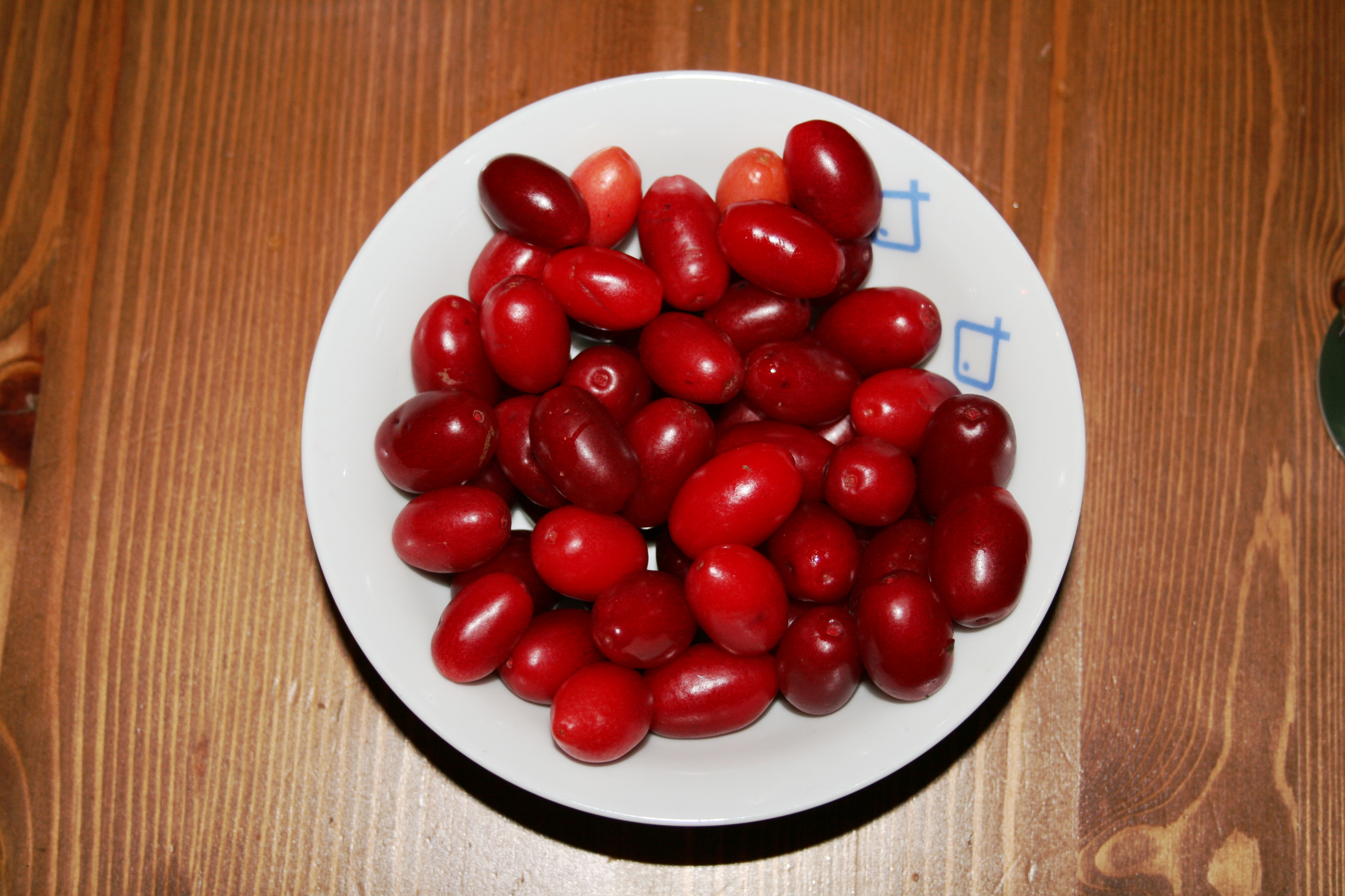 Fruits of European Cornel (Cornus mas), bought in Graz, Austria